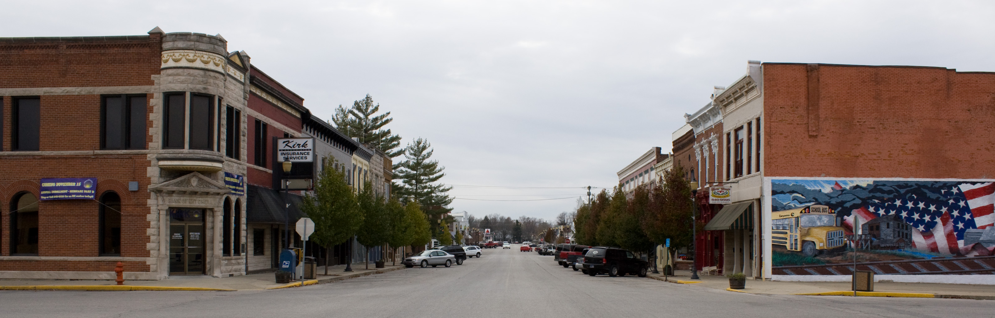 Mitchell, Indiana. Looking west down Main St.